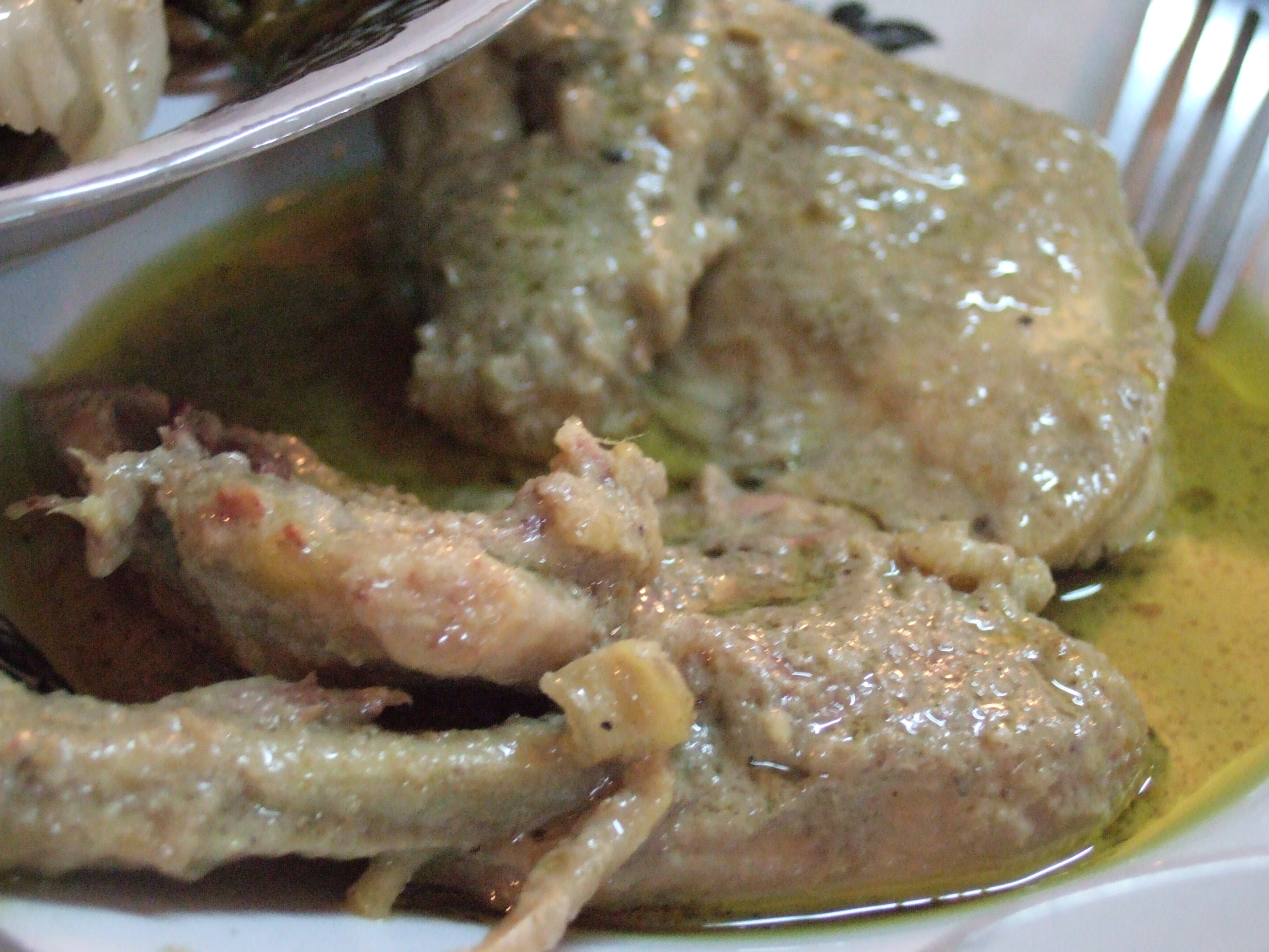 Chicken cooked in coconut milk